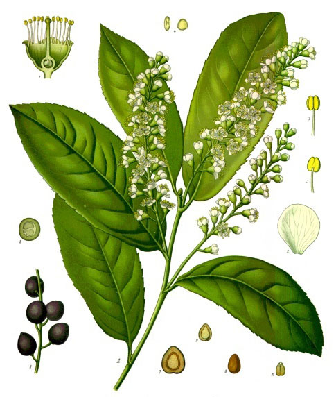 Prunus laurocerasus